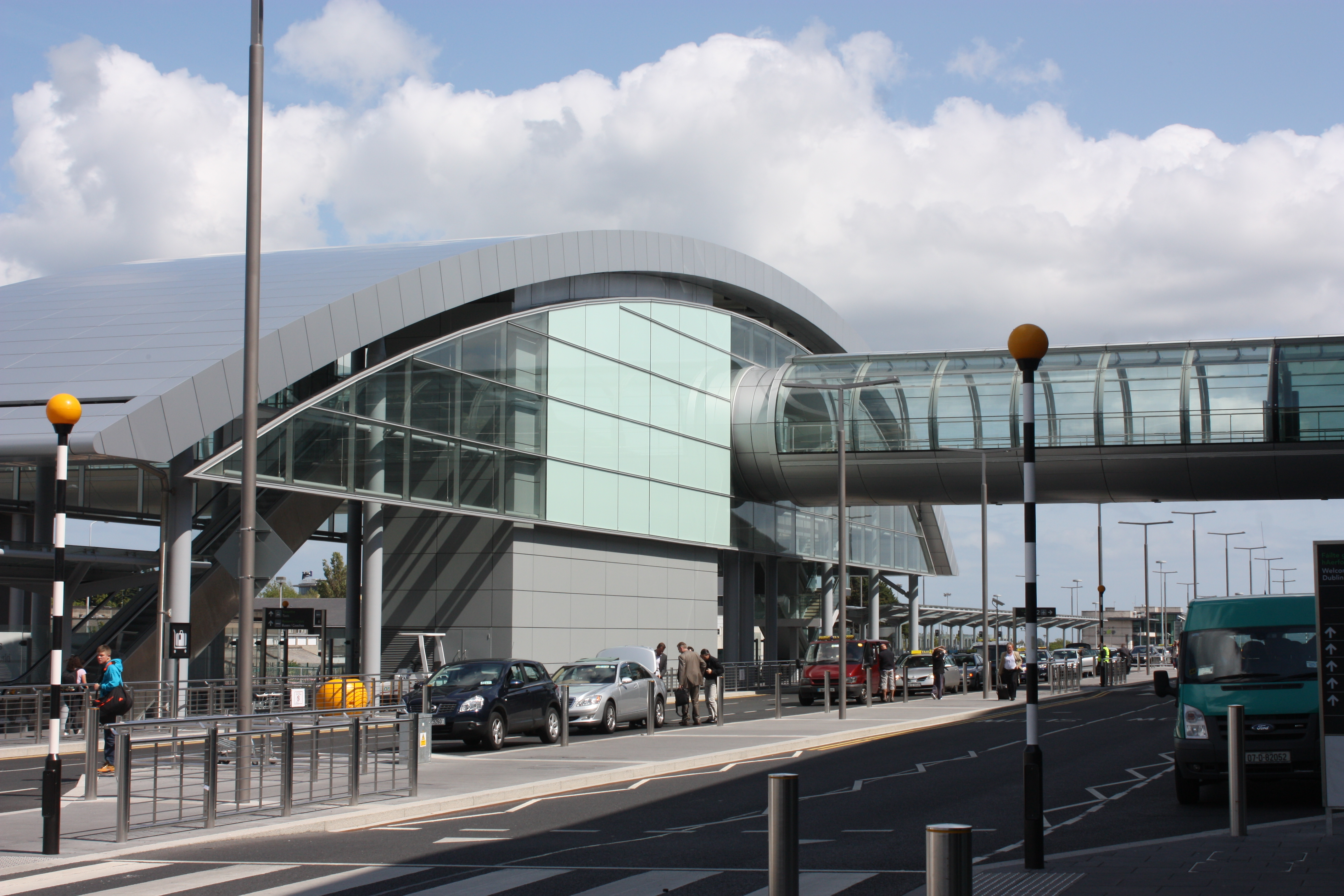 Terminal 2, Dublin Airport, Dublin, Ireland, May 2011